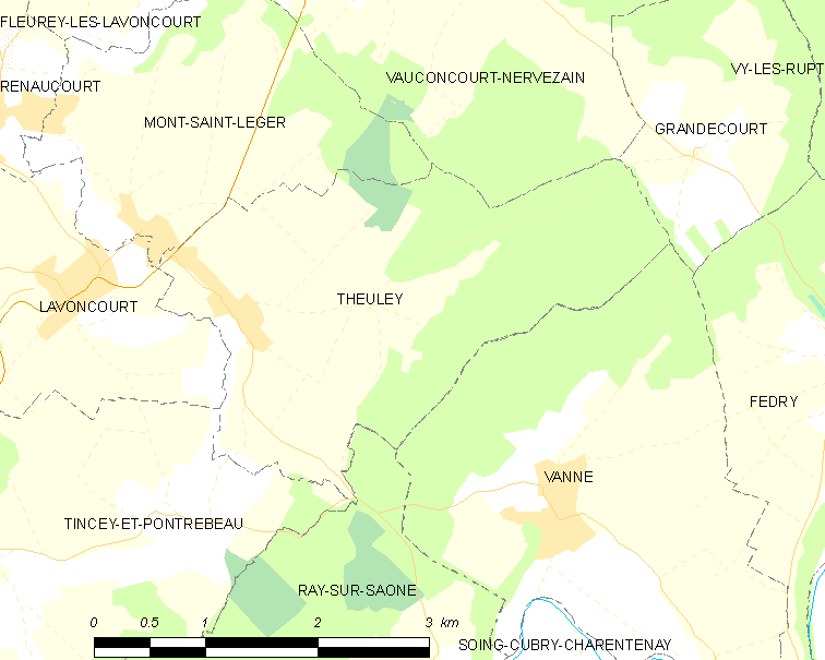 Map of French municipality